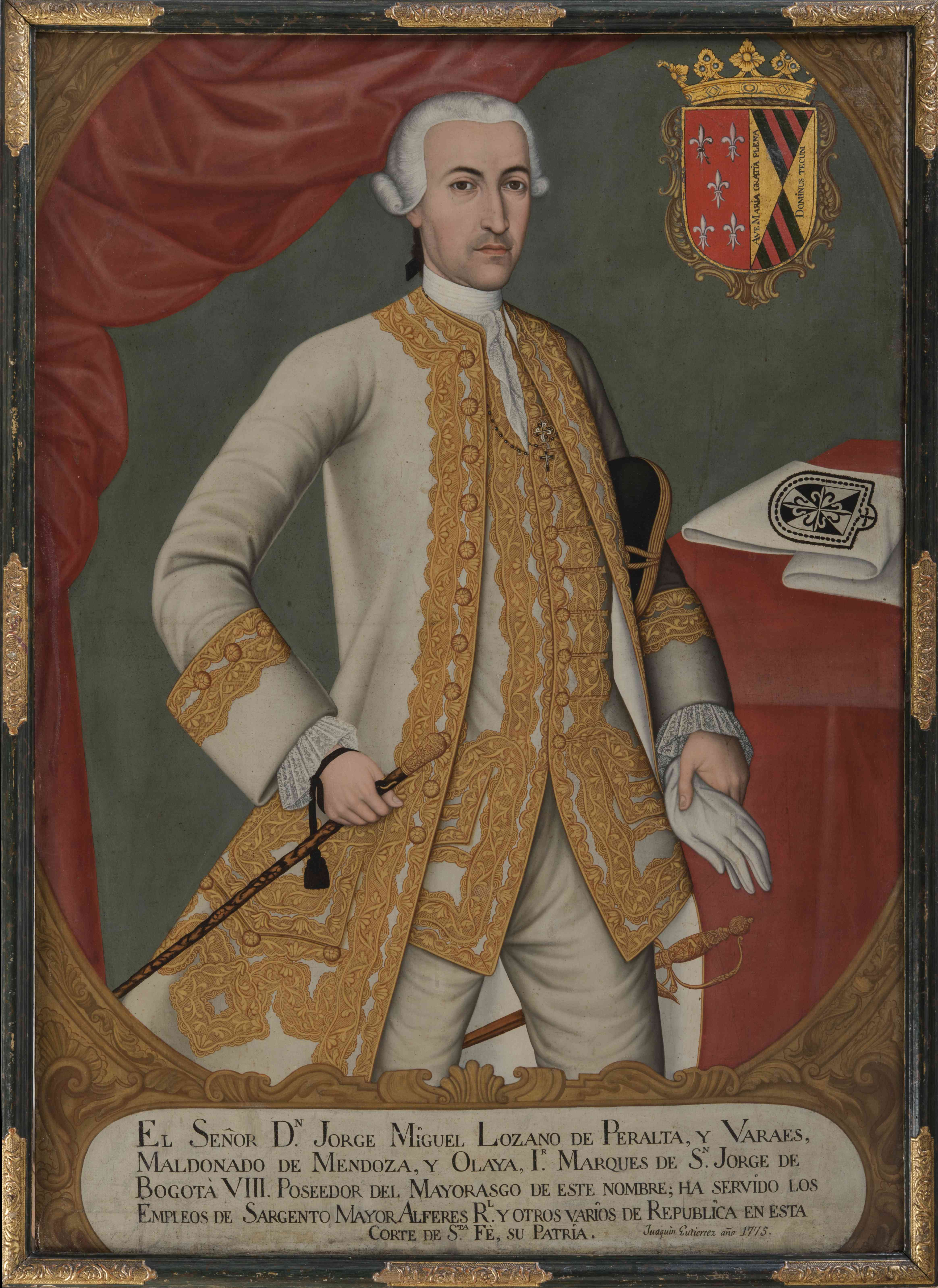 Jorge Miguel Lozano de Peralta, Marqués de San Jorge